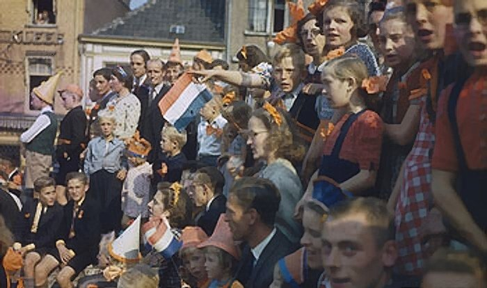 Children wearing orange ribbons and waving Dutch flags during celebrations in Eindhoven, the first major town in the Netherlands to be liberated during WWII. 20 September 1944.